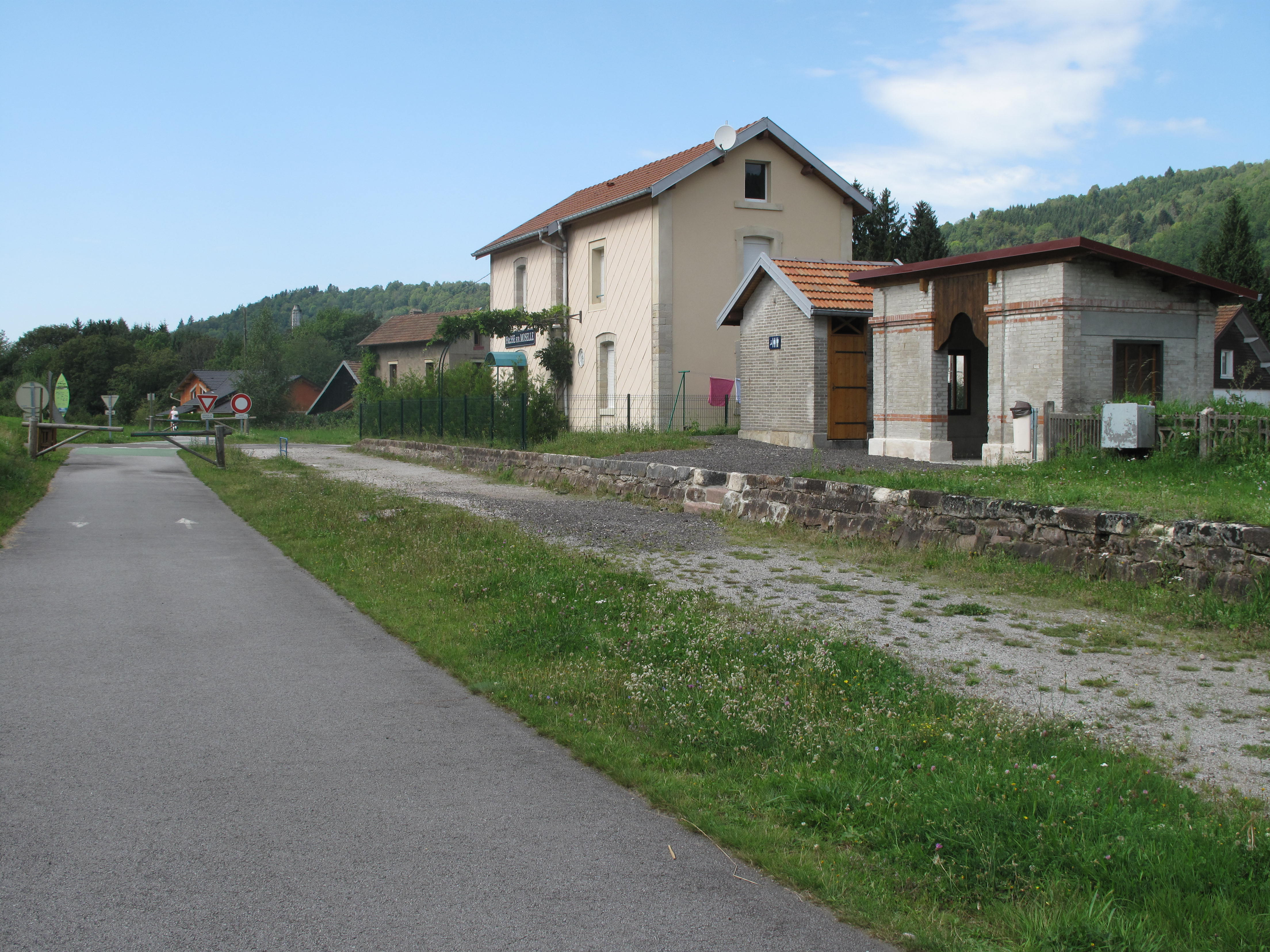 The bicycle trail la voie verte near the former train station of Fraisse-sur-Moselle (Vosges, France).